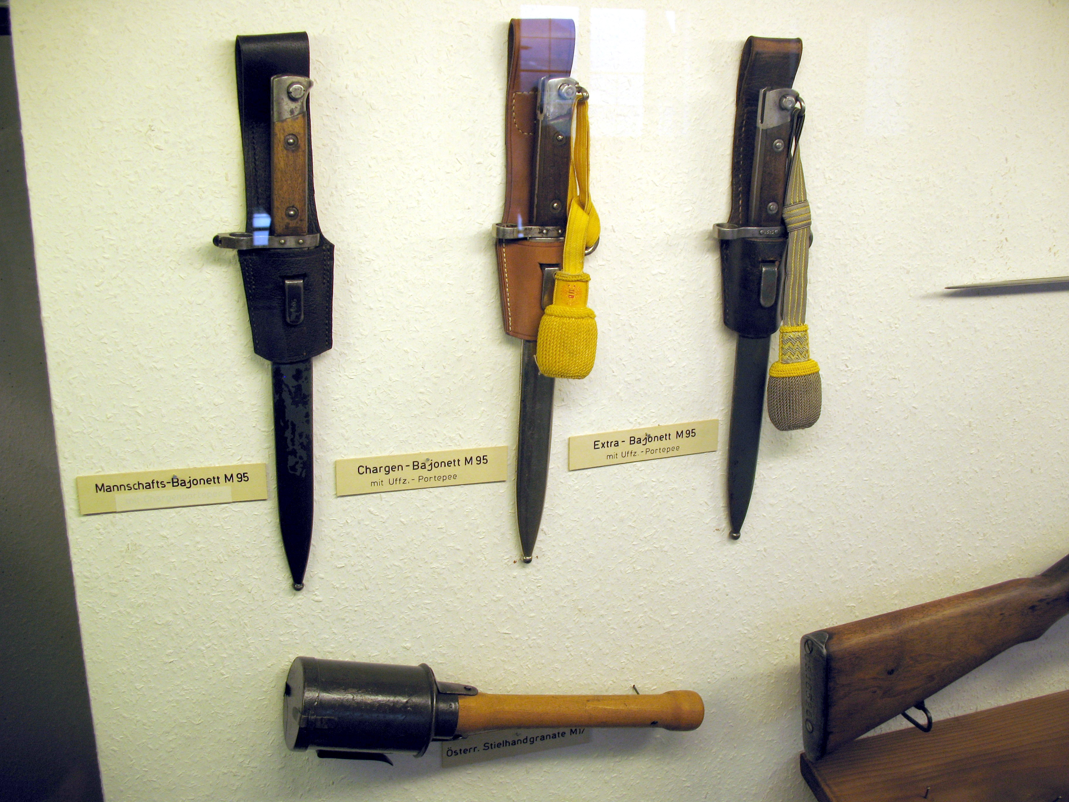 Bayonets and a handle hand grenade; High Fortress, Salzburg, Austria